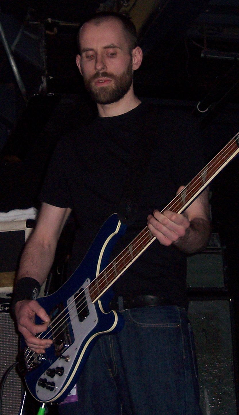 Dominic Aitchison performing live with Mogwai on 6 March 2006 at The Avalon in New York, USA.